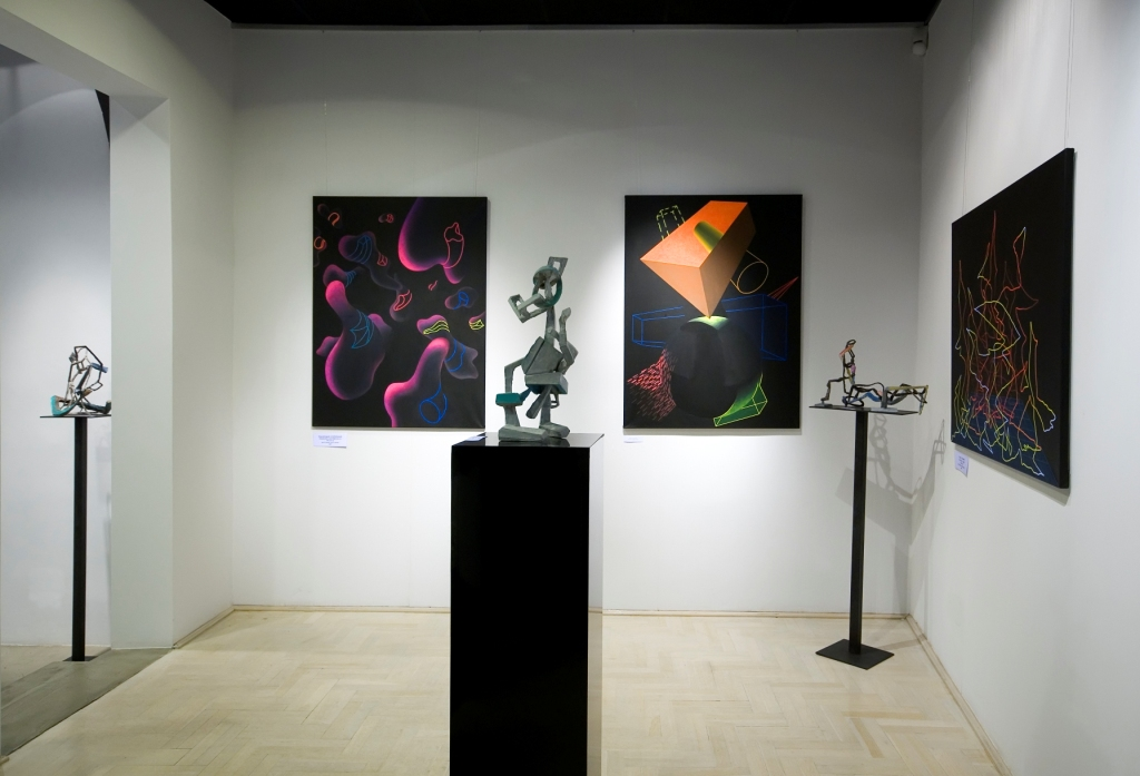 Geometry IV.